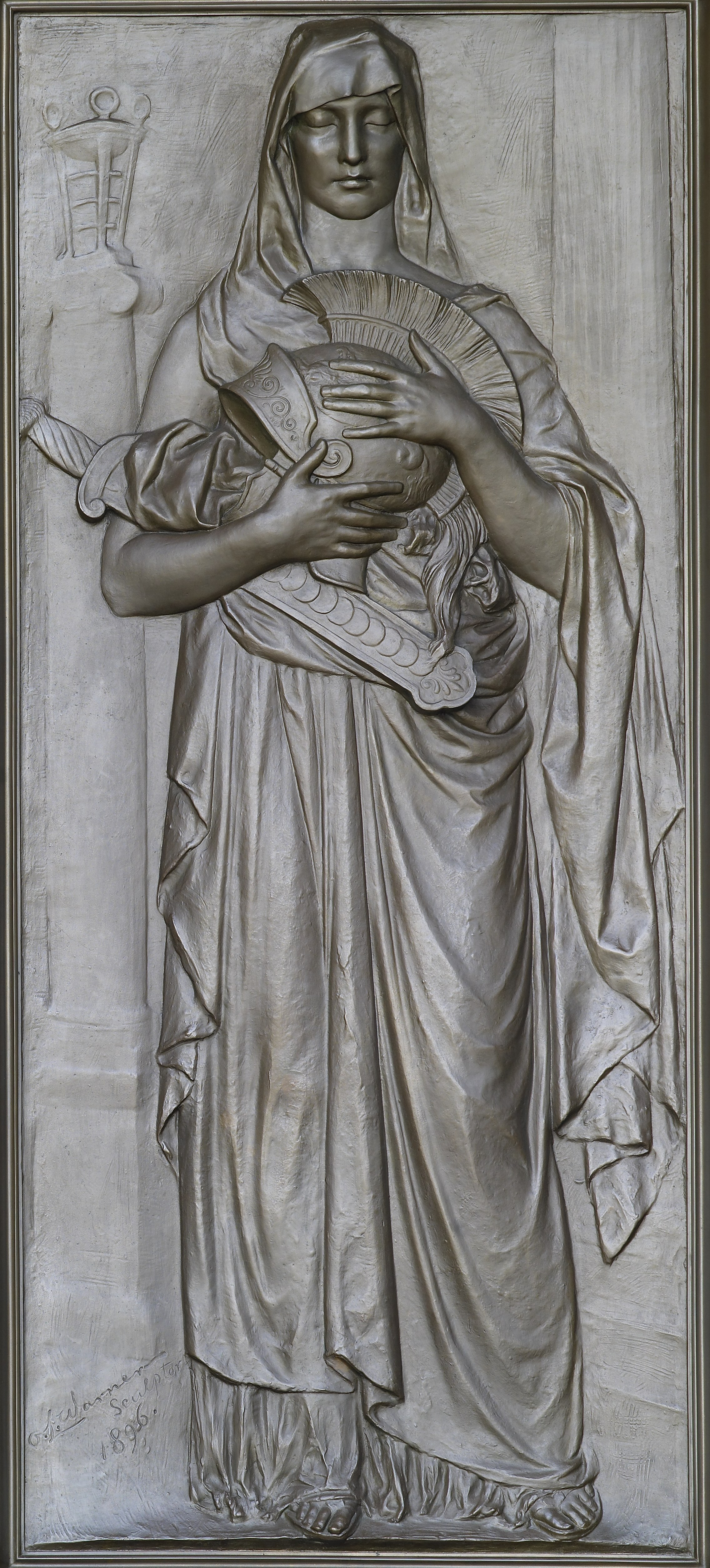 Memory (1896). Olin Warner (completed by Herbert Adams). Bronze door at main entrance of the Library of Congress Thomas Jefferson Building.